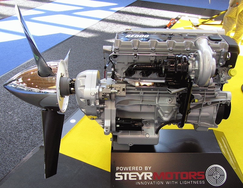 Austro Engine 500 based on Steyr Motors M1